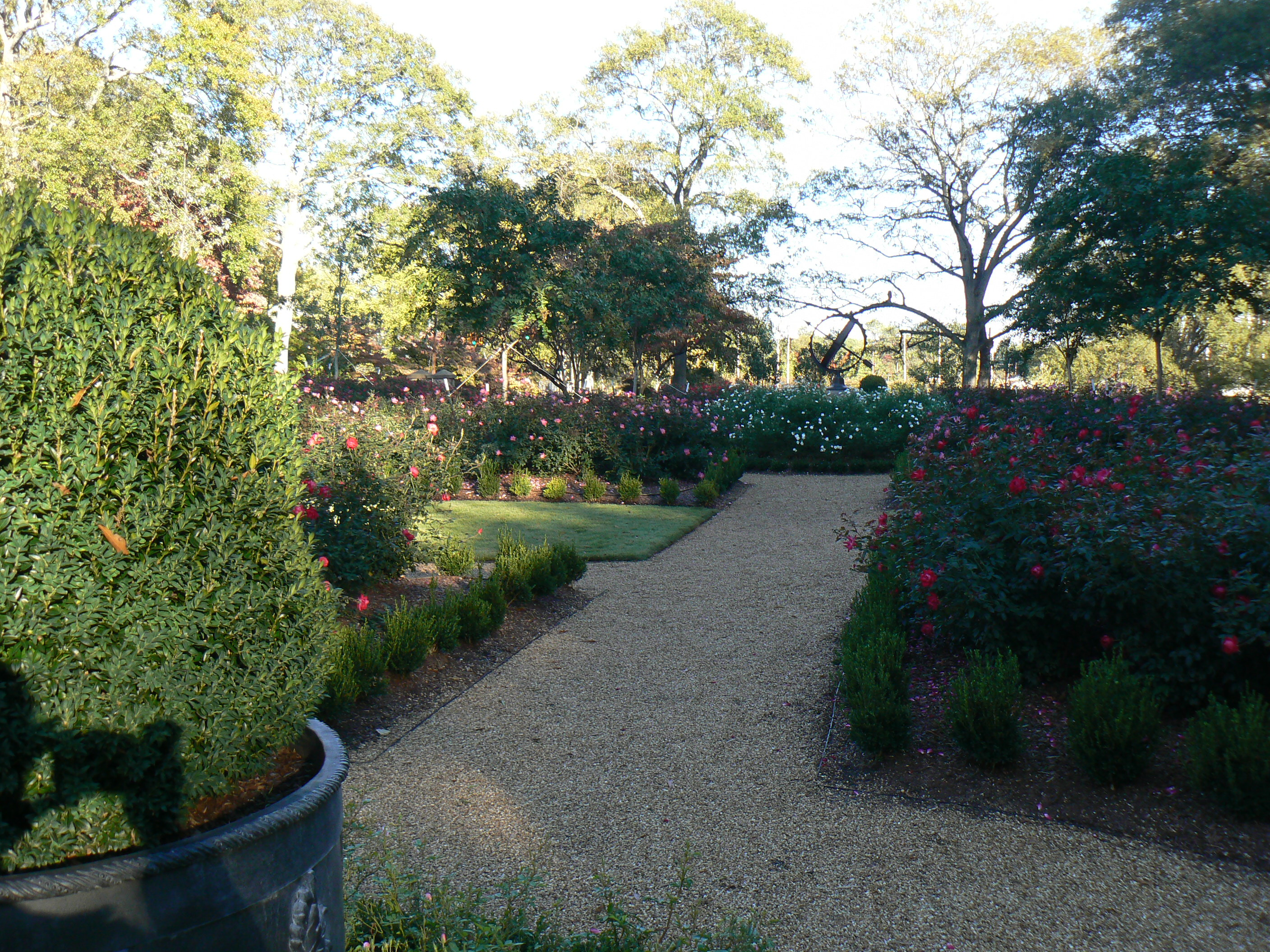 Self taken picture of the Delano Rose Garden at Delano Park (Decatur)